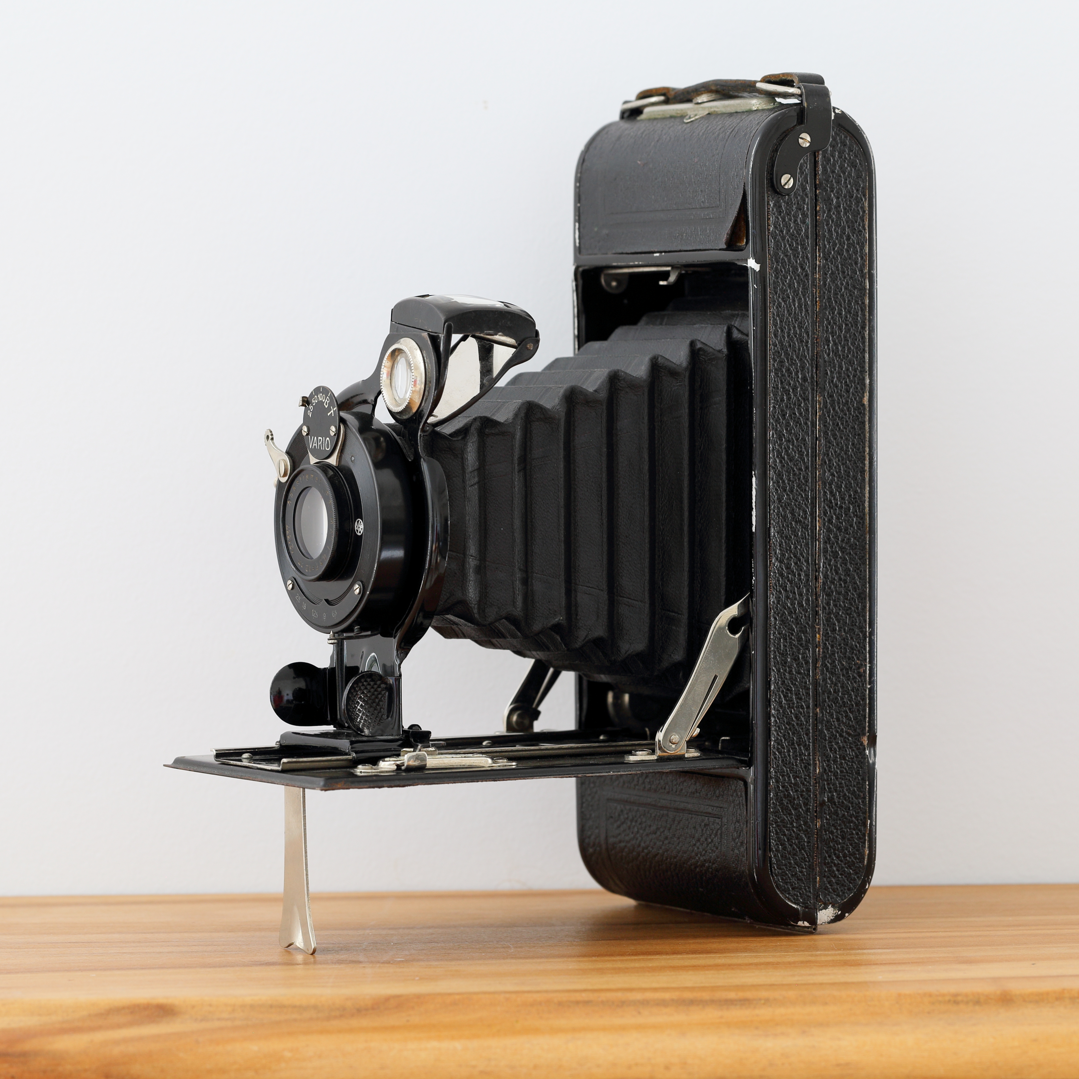 VARIO Anastigmat PRIMA 1:6,3 F = 12 cm. 121337